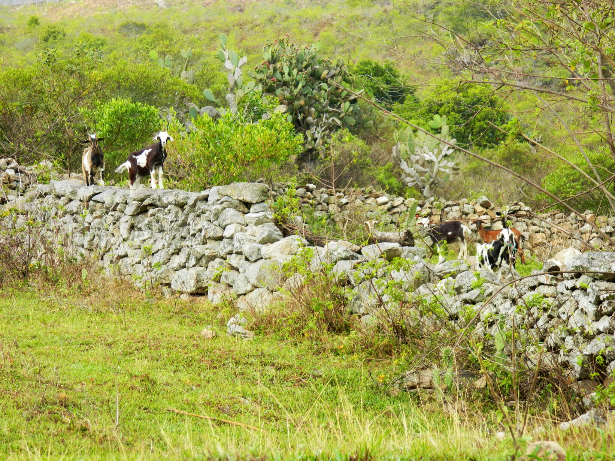 Explotación Caprina vereda Los Molinos